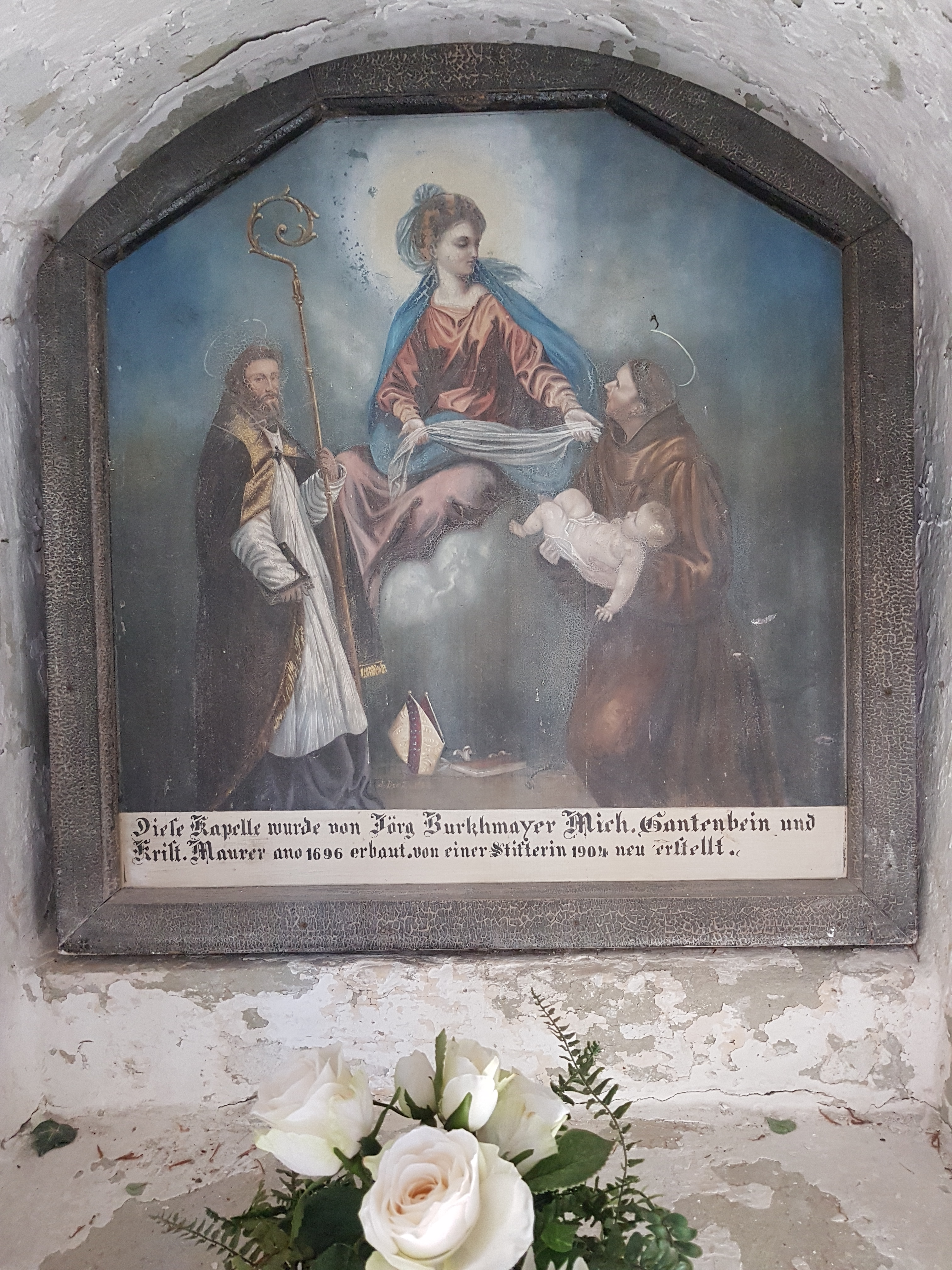 Chapell Stellveder (about 757 m asl) on the Gamperdonaweg in Nenzing, Vorarlberg, Austria. Listed object (ObjektID): 87984. The chapel was built in 1696 and built by Jörg Burkhmayer, Mich. Gantenbein and Krist. Mason donated. In 1904 this chapel was rebuilt by a donator (according to the altarpiece).